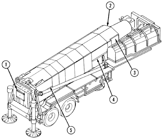 Pershing II M1003 launcher with covers